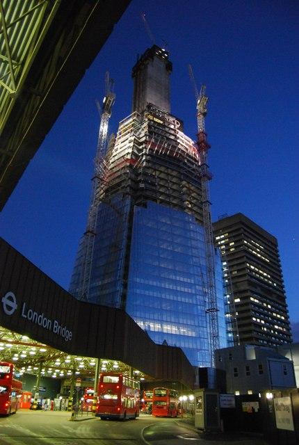 The Shard rising above London Bridge Station, near to Bermondsey, Southwark, Great Britain. A 72-storey office building / hotel, being constructed from 2009-2012 as the centre of the London Bridge Quarter development on the South bank of the Thames. When completed, the skyscraper will, at 310m tall, be for a while the tallest building in the UK and possibly in the world (depending on other developments elsewhere). The official website is Link See also the Wikipedia entry at Link See other images of The Shard at London Bridge